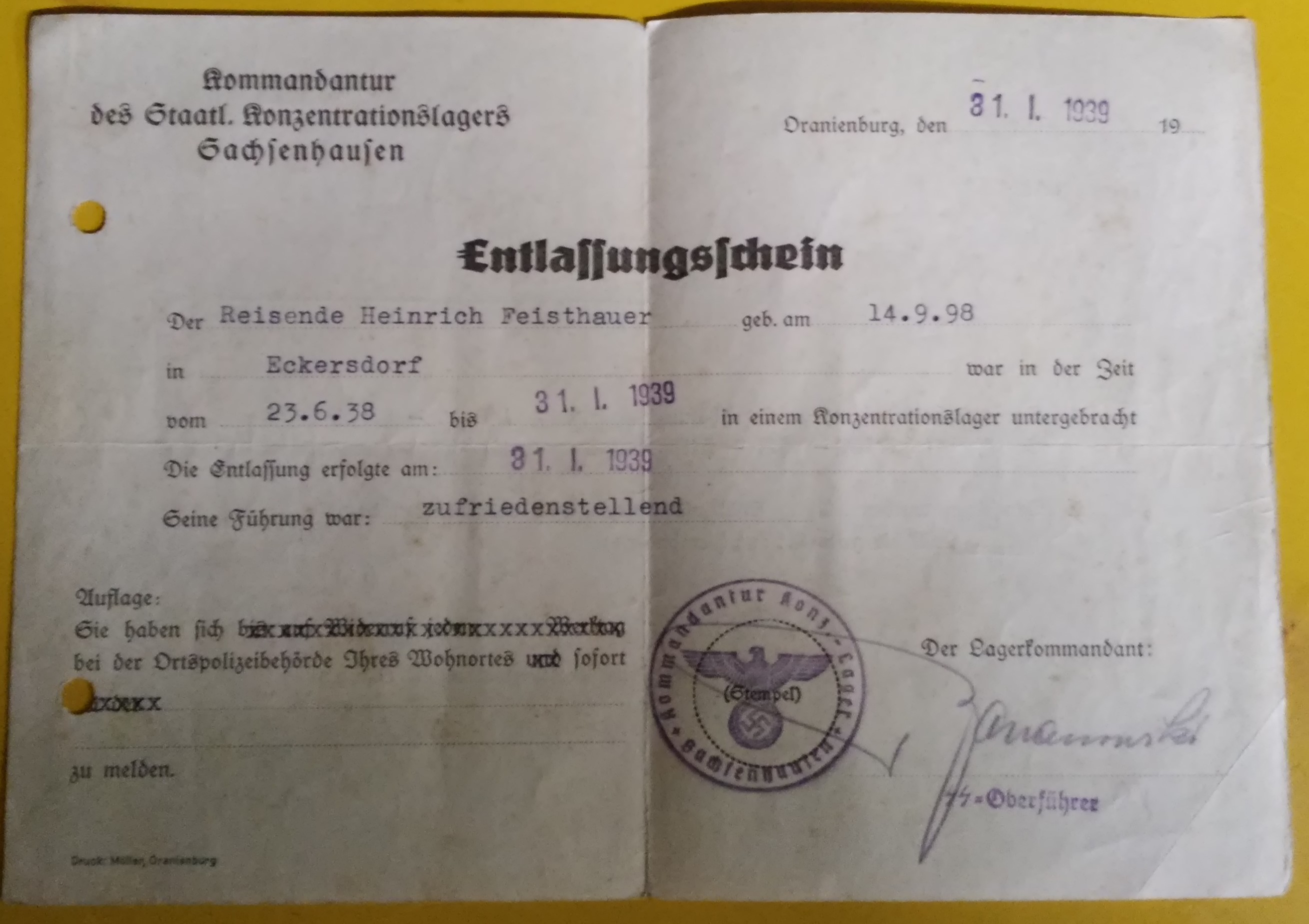 Heinrich Feisthauer was imprisiond by the Nazis as a politicle prisoner in the Concentration Camp Sachsenhausen, Germany. He wad imprisoned on 26.06.1983 and release on the 31.01.1939.